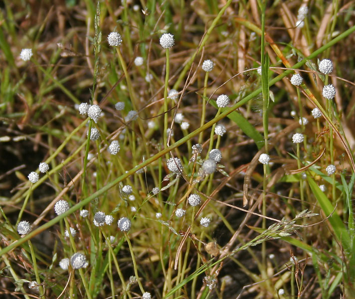 Eriocaulon heterolepis ? in Narsapur, Andhra Pradesh, India.